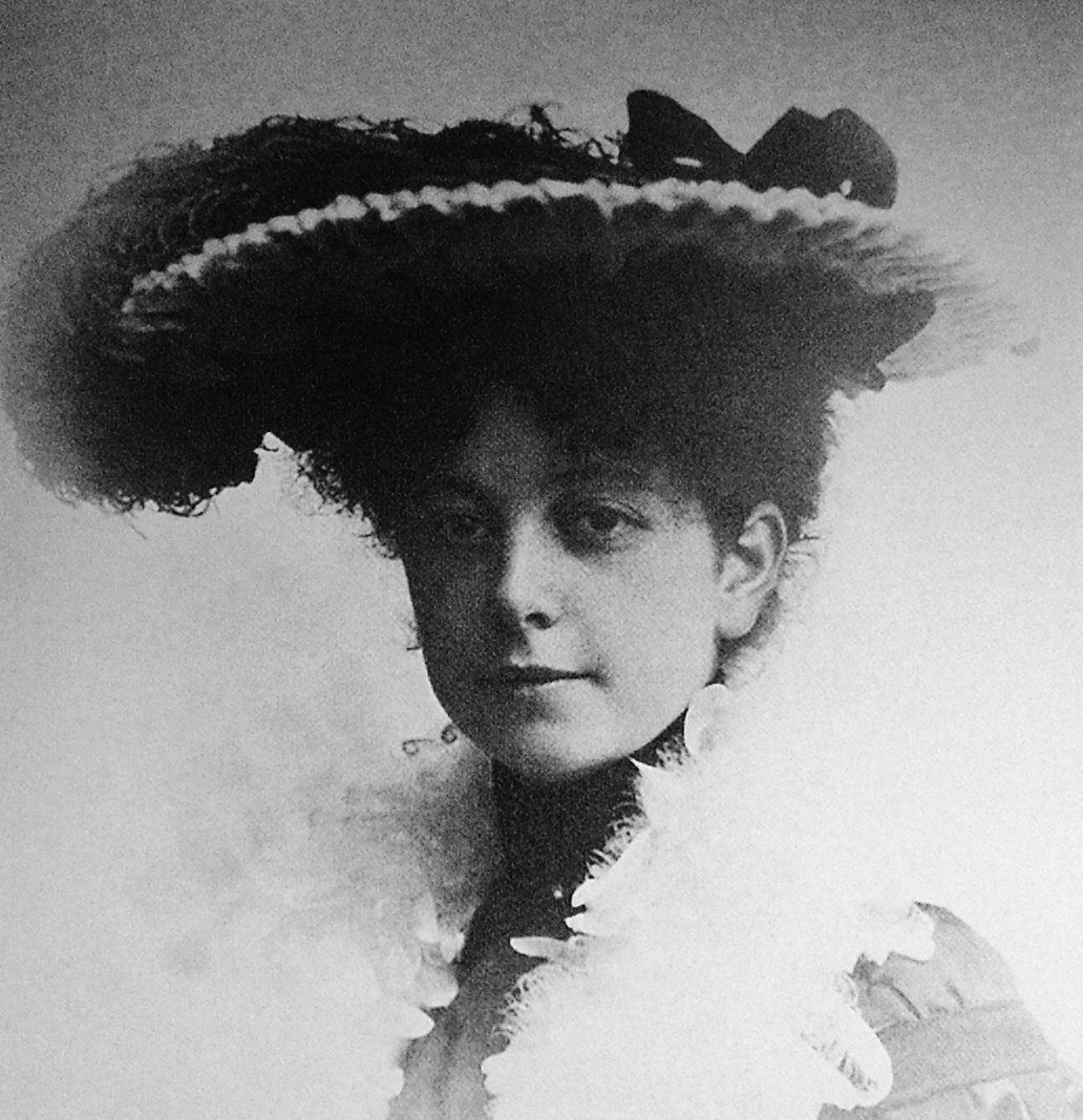 Picture of Valfrid Palmgren, Swedish librarian